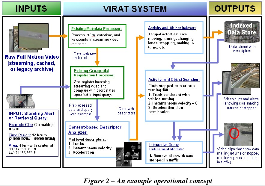 Operational concept diagram for the Wikipedia:Video and Image Retrieval and Analysis Tool (Wikipedia:VIRAT) developed by the Wikipedia:Information Processing Technology Office of Wikipedia:DARPA